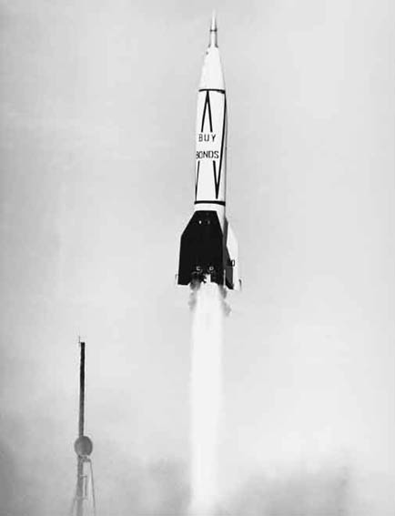 Launch of a V2 from White Sands by the US Army